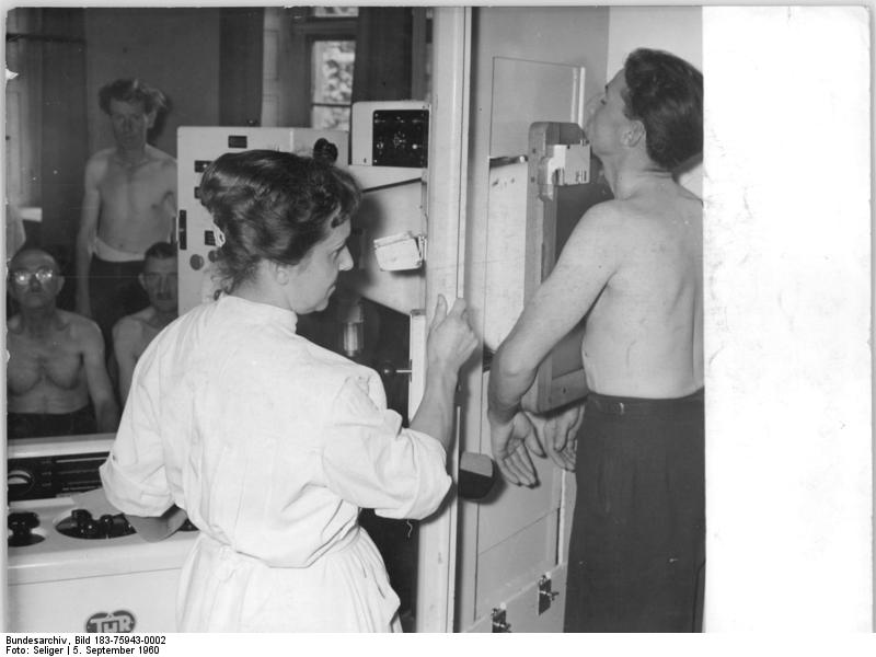 Central image Seliger 09/05/1960 Preventive Health in the harvest time our government spends millions of DM to maintain the health of our population. The measures to protect health for the rural population, among others carried out in the village Peckatel, district Neubrandenburg also during harvest time - by mobile X-ray stations. Shown here: the cooperative farmers LPG "Unity" (type I) from the village Peckatel, circle goods, Neubrandenburg, at the annual X-ray examination. Employees of the District screen location Neubrandenburg carry them out.